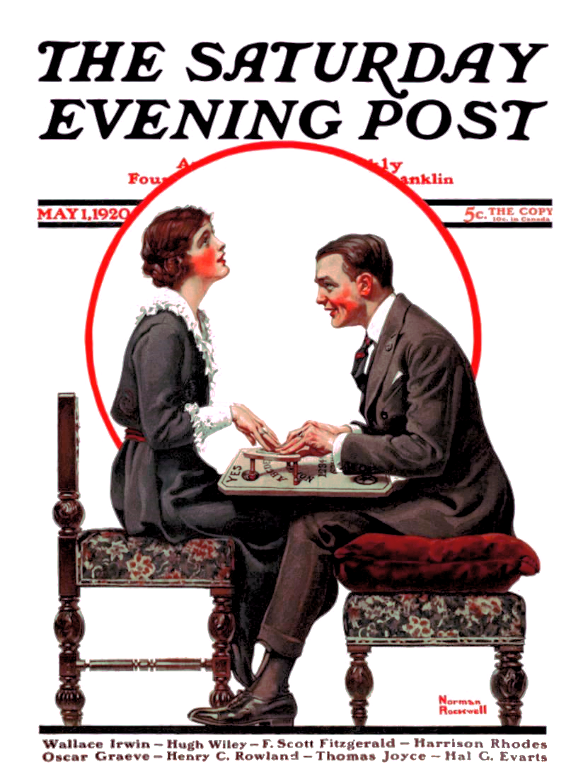 The May 1, 1920 issue of The Saturday Evening Post, the first time Fitzgerald's name appeared on the cover of the magazine to which he contributed for much of his life. Fitzgerald's short story Bernice Bobs Her Hair appeared in this issue.